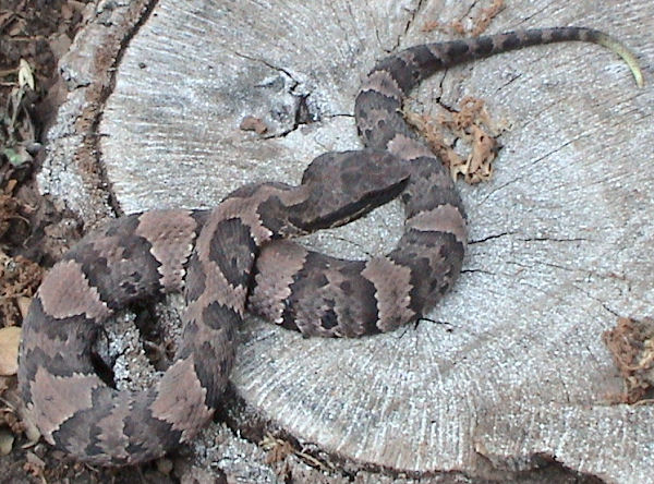 Juvenile Agkistrodon piscivorus leucostoma. Animal courtesy of Austin Reptile Service.